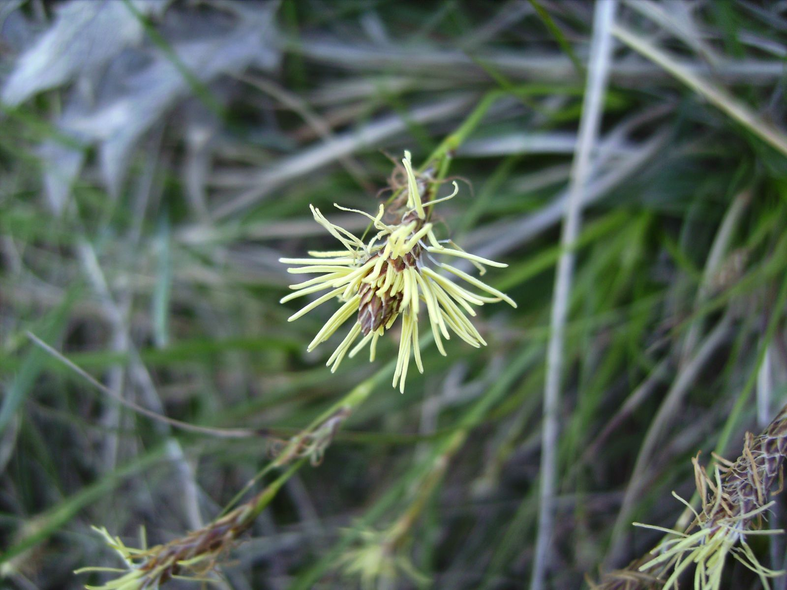 Carex halleriana male flower in the wild, Fonollosa Catalonia